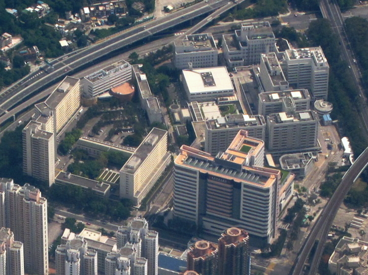 Prince of Wales Hospital 威爾斯親王醫院